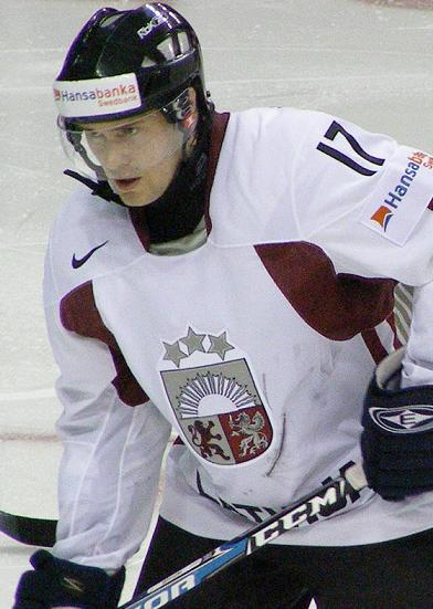 Aleksandrs Ņiživijs /Latvia VS Slovenia (IIHF World Hockey Championship in Halifax NS, May 6 2008)/